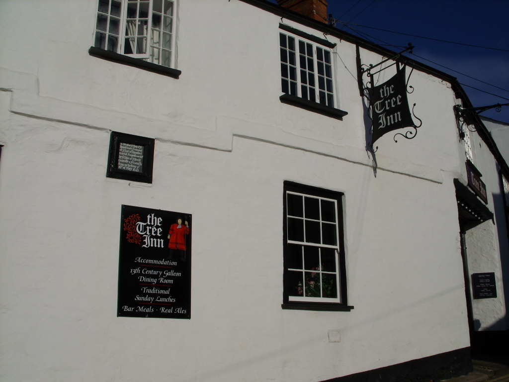 Talskiddy 17:36, 13 November 2007 (UTC)